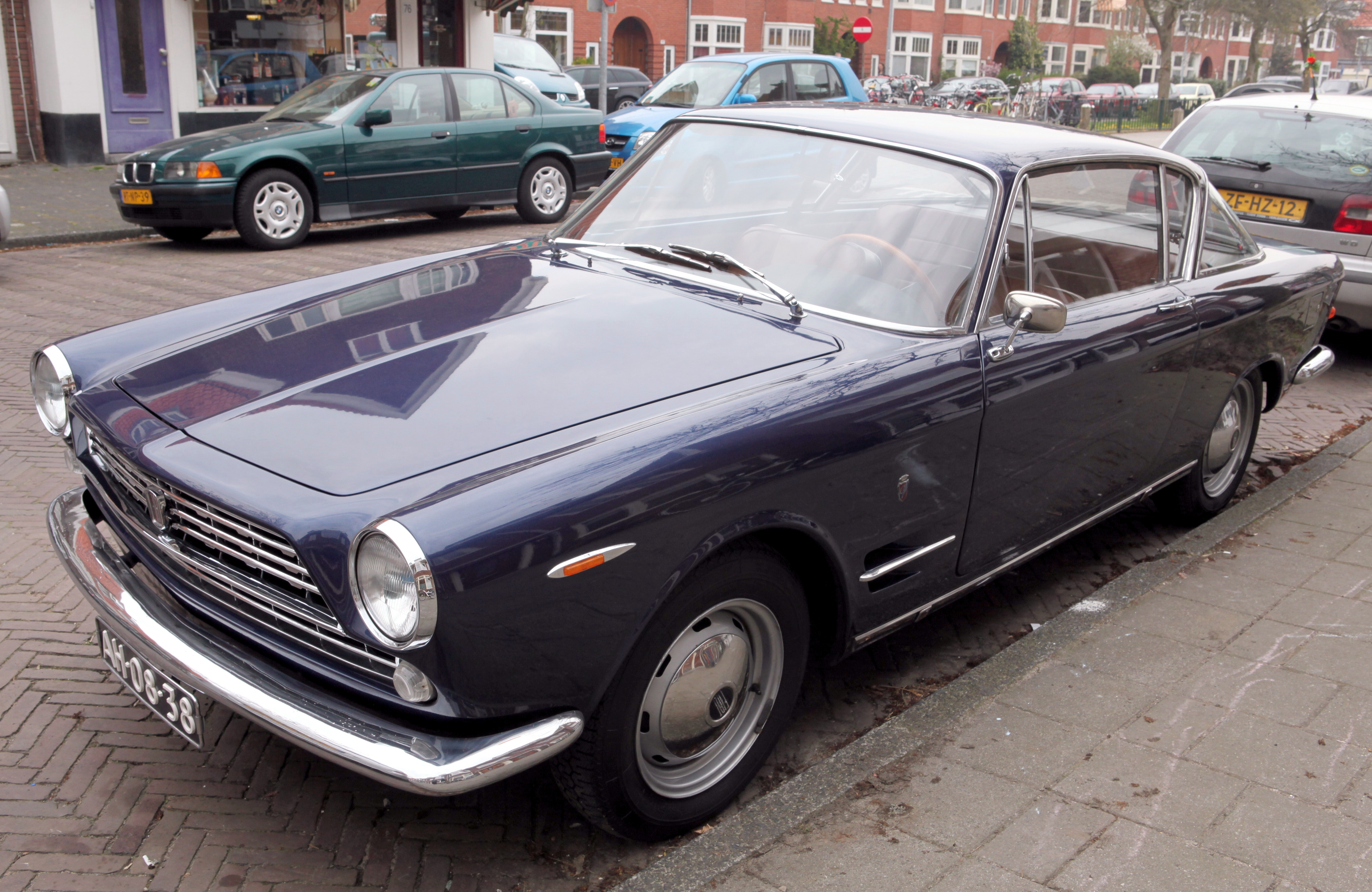 Fiat 2300 S Coupe